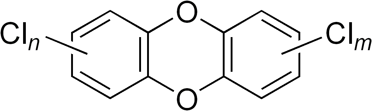 General chemical structure of polychlorinated dibenzodioxins (dioxin) where n and m are whole numbers from 0 to 4